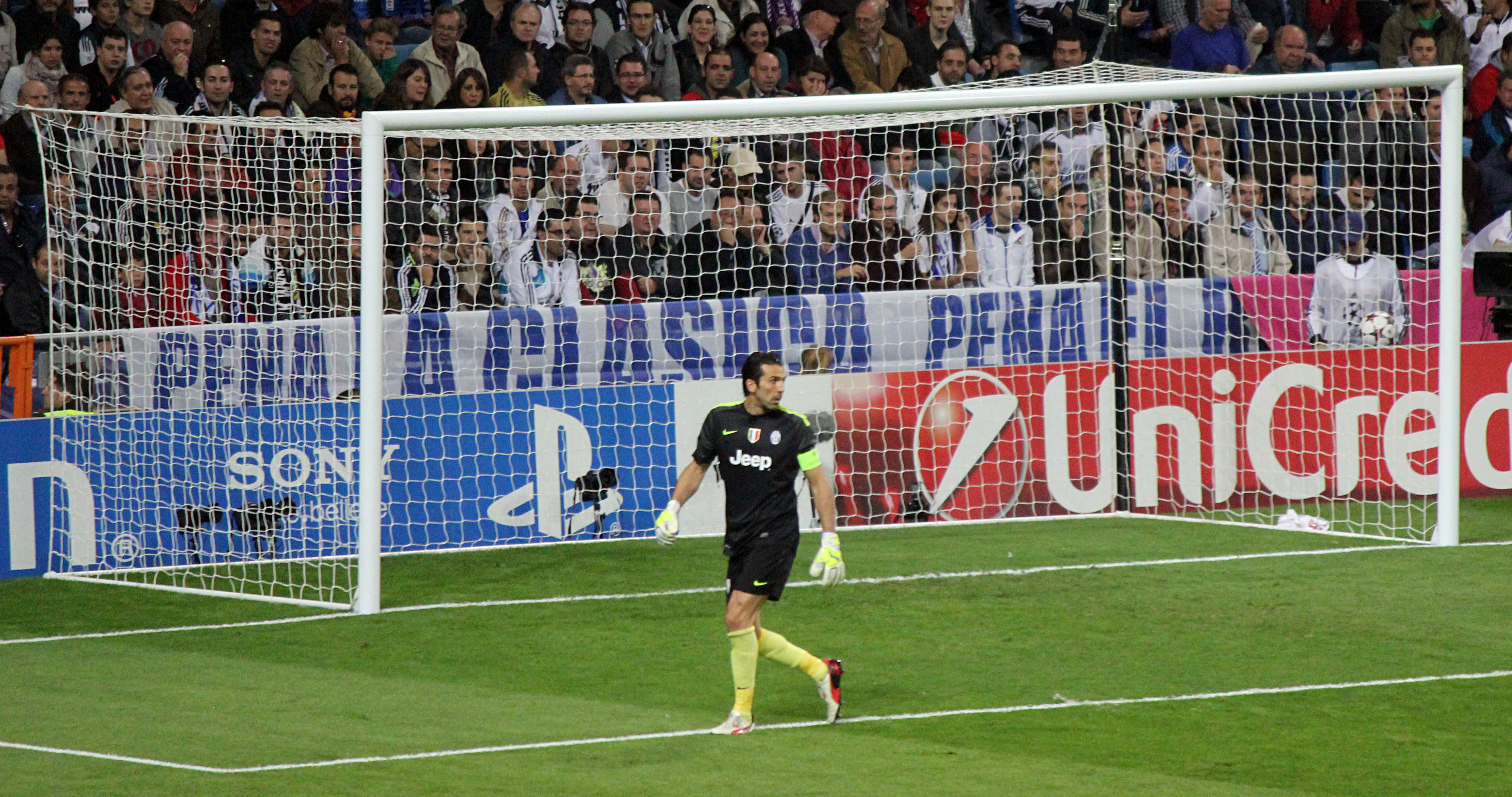 Madrid, 24 October 2013, Santiago Bernabéu Stadium. Real Madrid CF vs Juventus FC (2-1), 2013-14 UEFA Champions League group stage. Bianconeri's captain and goalkeeper Gianluigi "Gigi" Buffon.